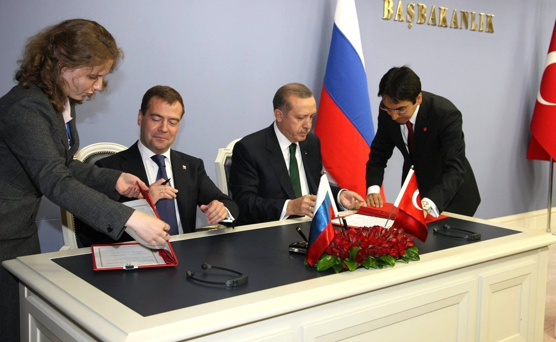 Turkish prime minister Recep Tayyip Erdoğan and Russian president Dmitry Medvedev on state visit in Turkey.